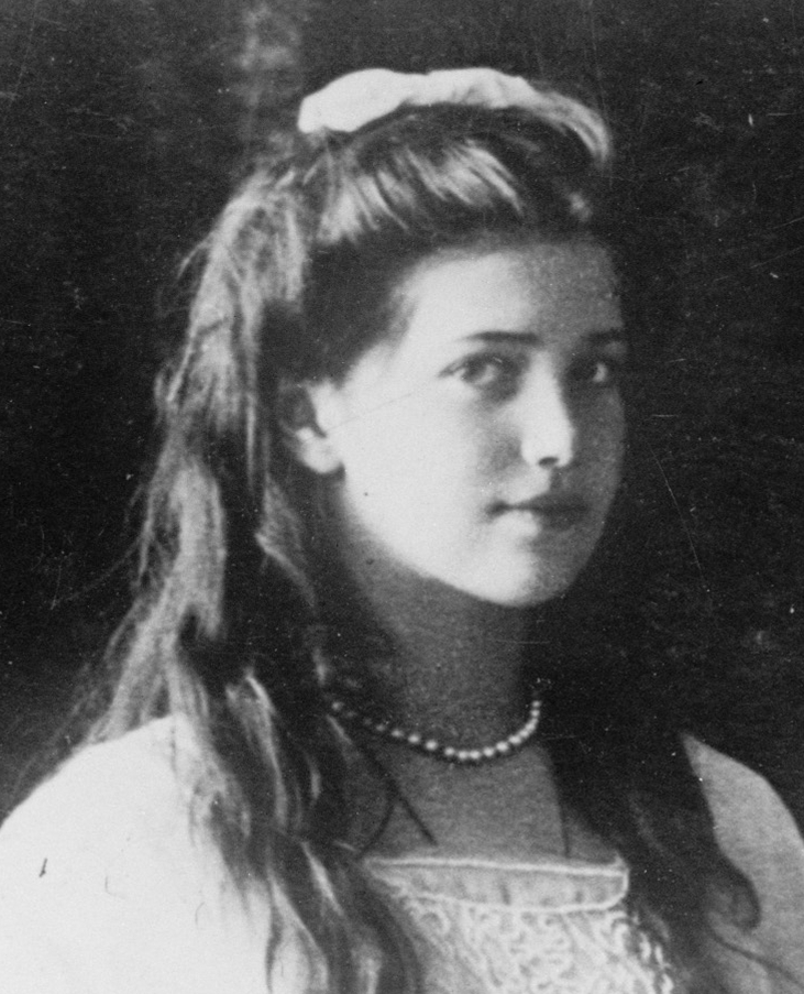 Grand Duchess Maria Nikolaevna of Russia (1899-1918) in 1914.